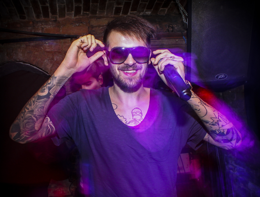 Polish rapper Quebonafide, Keller, Słupsk, 2015